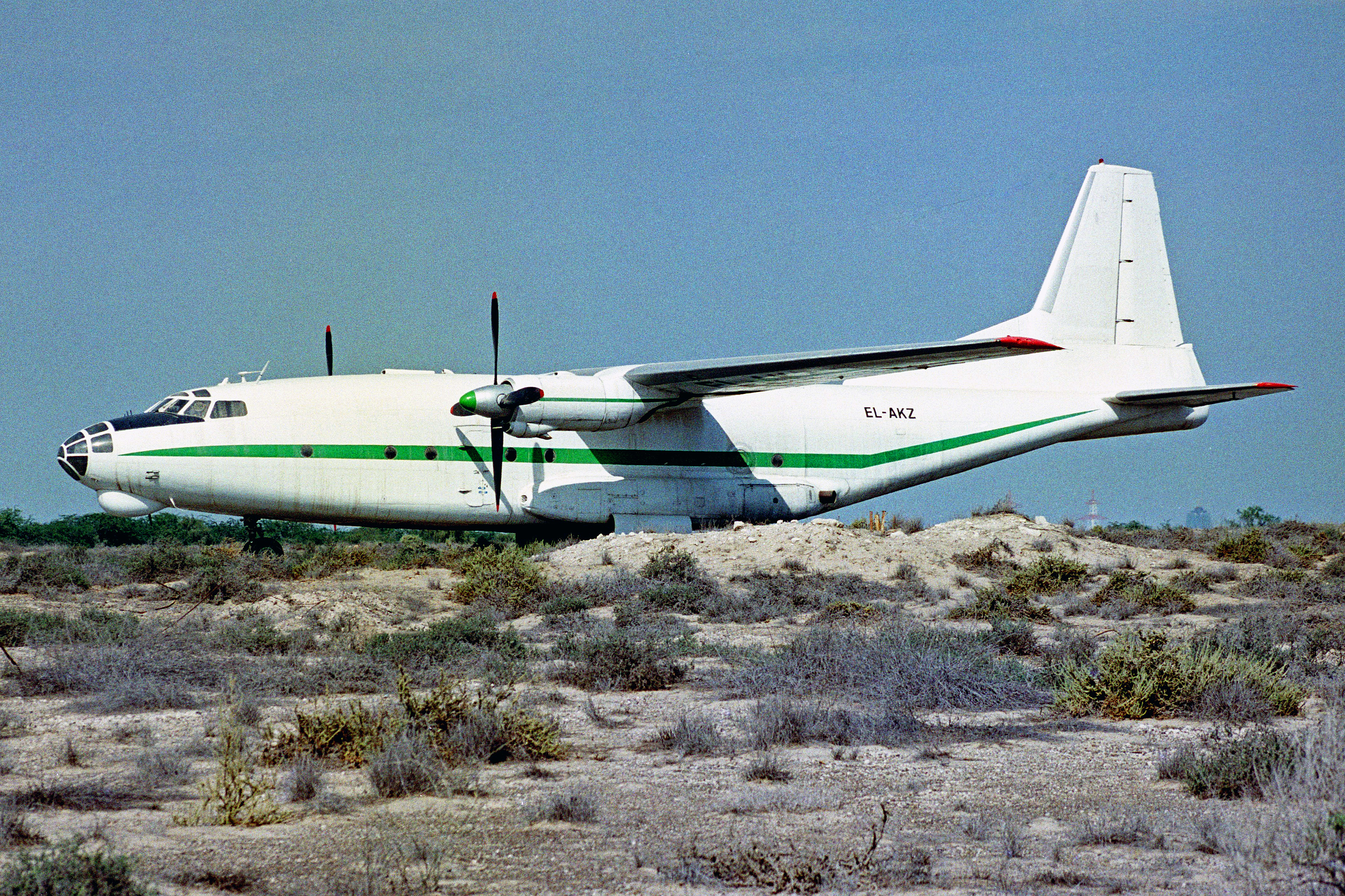 Because of several crashes, the CIS countries had grounded all remaining An-8's and the UAE had done the same. This one still looked reasonably pristine and airworthy although it was stored off the main ramp in the desert! (although if you look at it in 'original' size it looks very corroded under the paint on the underside of the fuselage).